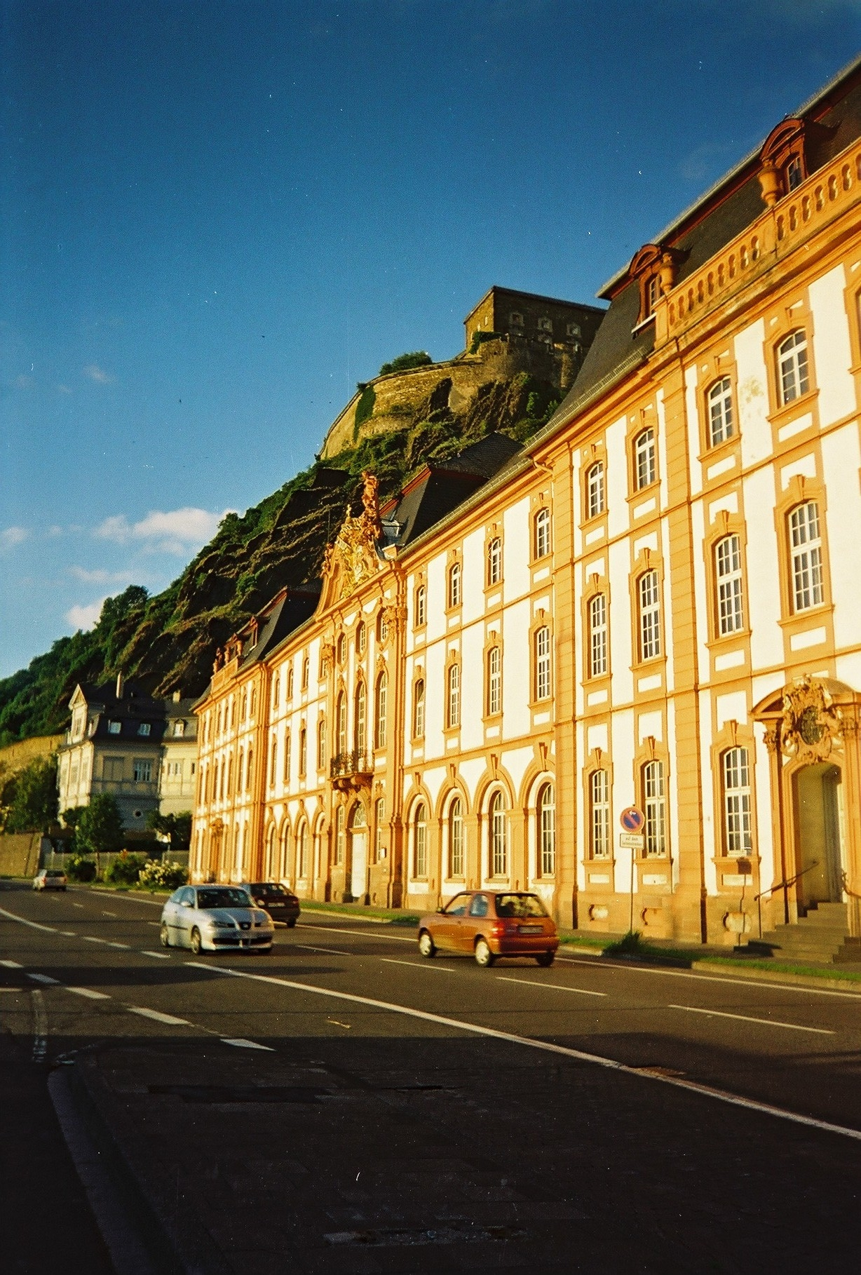 Castle and a building in Koblenz.